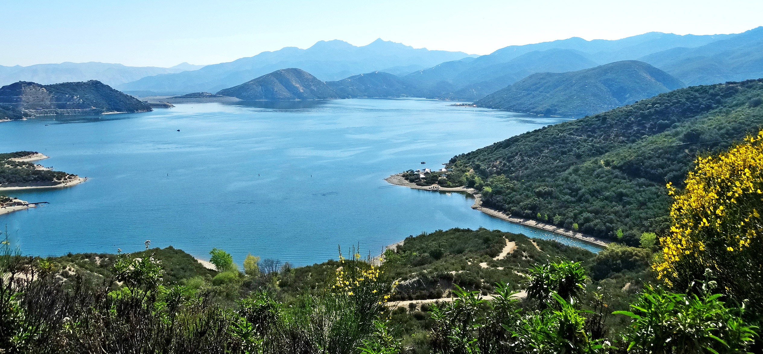 (1 in a multiple picture album) I'm above Silverwood Lake in the San Bernardino Mountains as the sun begins to warm the water. Only a couple early birds are out on the lake in their boats. The wildflowers are blooming. All is well.